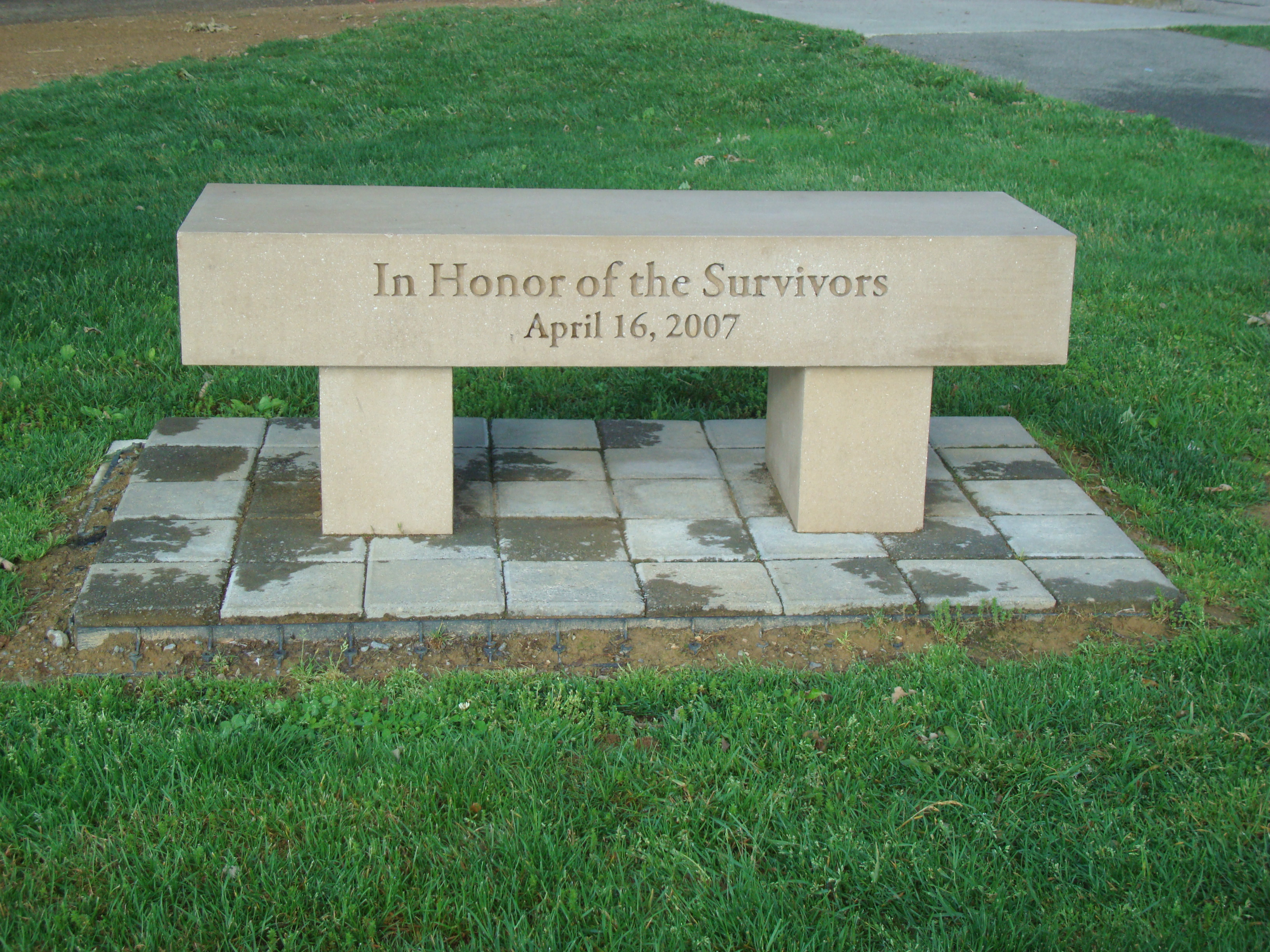 Bench in honor of the Virginia Tech massacre survivors. It is slightly south of the main memorial.